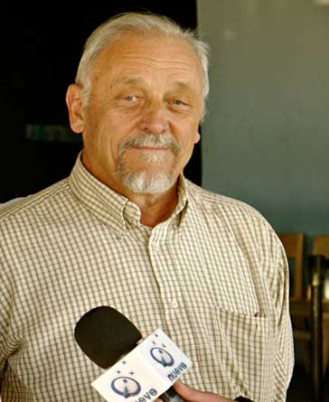 Ing. Pedro Skvarca (2014)